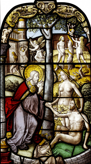 Fall of Adam, stained glass panel from Steinfeld Abbey